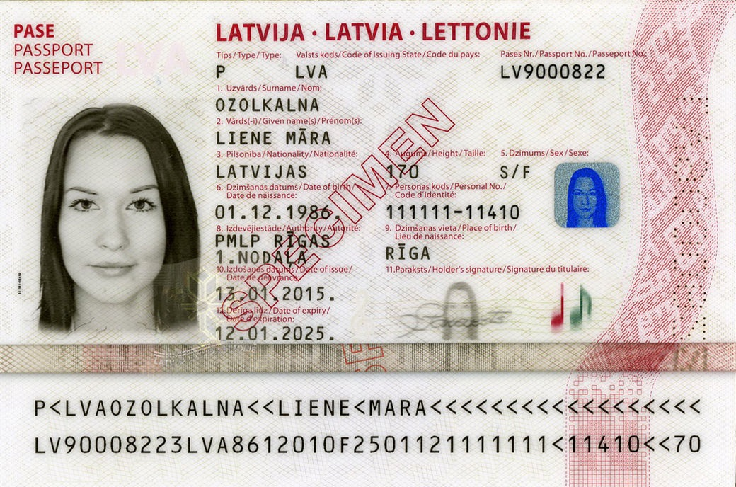 The 3rd page of a passport of the Republic of Latvia